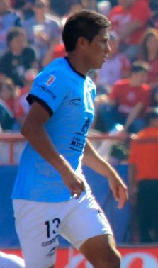 Mexican player Moisés Velasco